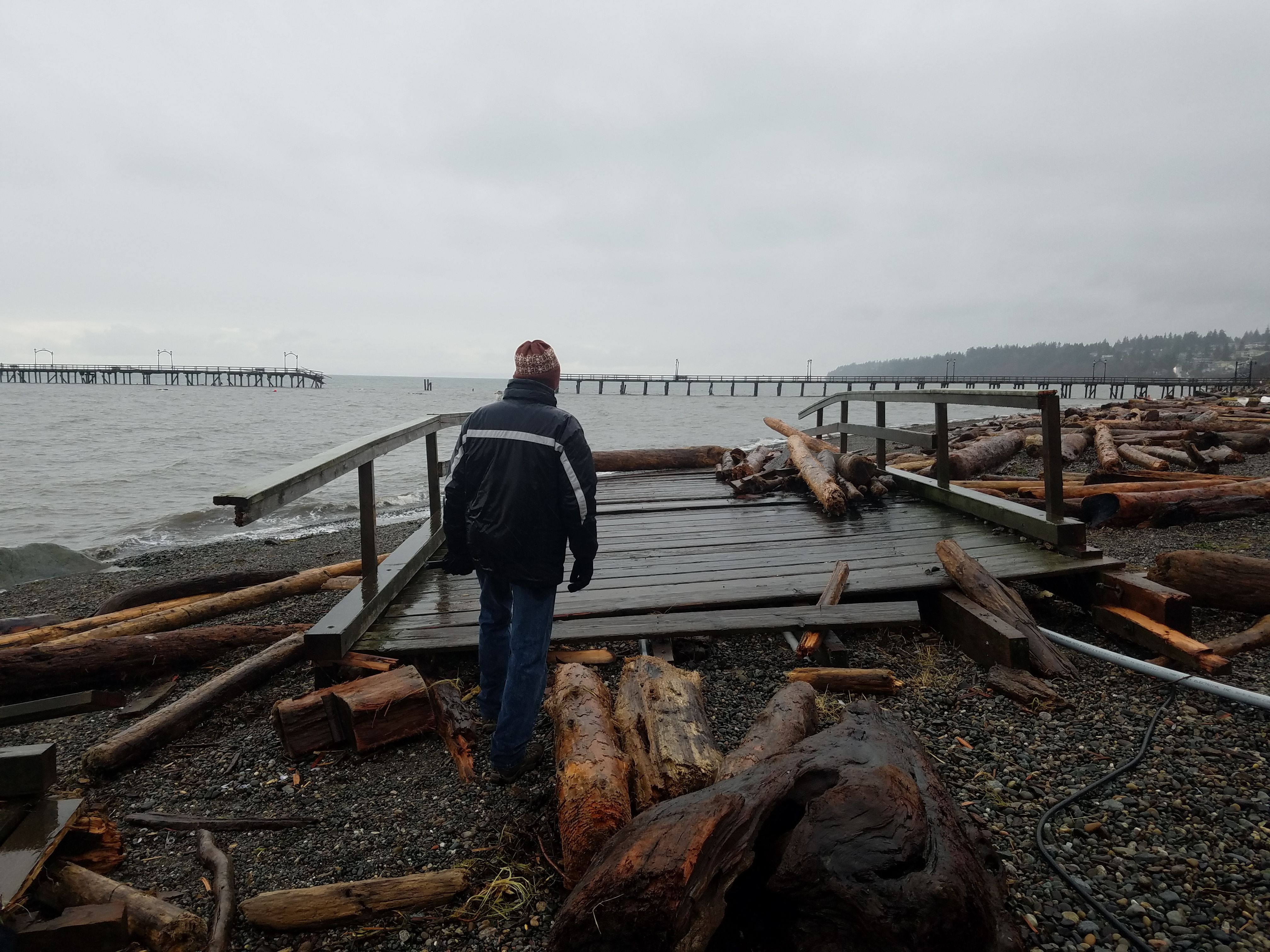 White Rock Pier portion sitting on beach after being destroyed by loose docks.